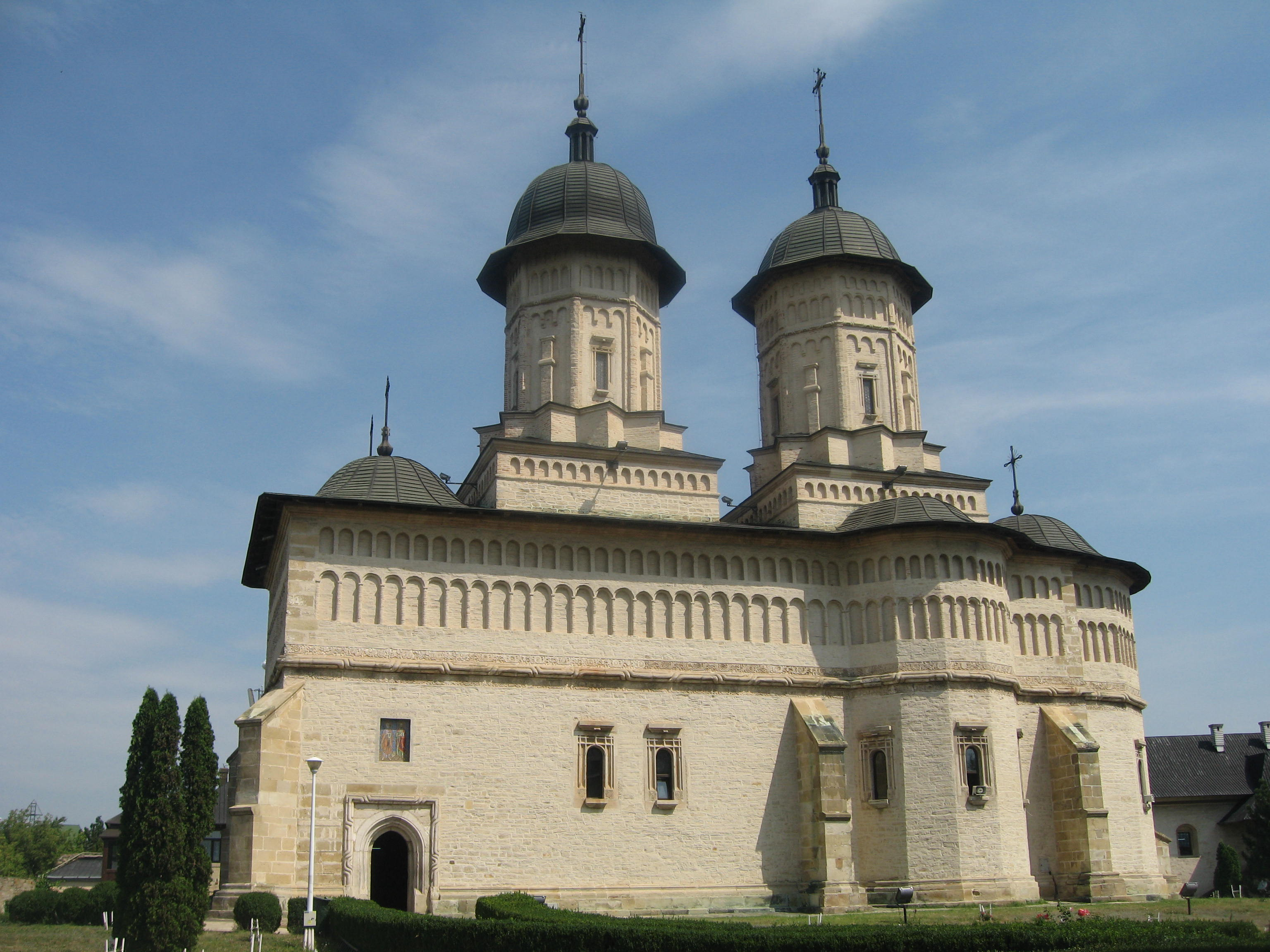 Mănăstirea Cetăţuia